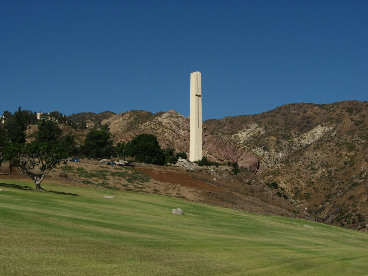 Pepperdine University is a private, nonprofit, coeducational research university affiliated with the Churches of Christ. The university's 830-acre (340 ha) campus overlooking the Pacific Ocean in unincorporated Los Angeles County, California, United States, near Malibu,[2][3] is the location for Seaver College, the School of Law, the Graduate School of Education and Psychology, the Graziadio School of Business and Management, and the School of Public Policy. Courses are taught at the main campus, six graduate campuses in southern California, and at international campuses in Germany, England, Italy, China, Switzerland and Argentina. The main campus is located among several ridges that overlook the Pacific Ocean and the Pacific Coast Highway in Malibu, California. The main campus entrance road ascends a steep, well-groomed grassy slope past a huge stylized cross, known as the Phillips Theme Tower, symbolizing the university's dedication to its original Christian mission. Most buildings were constructed in a reinterpretation of Mediterranean Revival Style architecture (red tile roofs, white stuccoed walls, large tinted windows). The majority of the construction on the main campus was completed in 1973. There are views of the Pacific Ocean, Catalina Island, Palos Verdes Peninsula, Long Beach and the westside of Los Angeles from numerous points. Landscape architects (Eric) Armstrong and (S. Lee) Scharfman were responsible for the campus green space planning and design.